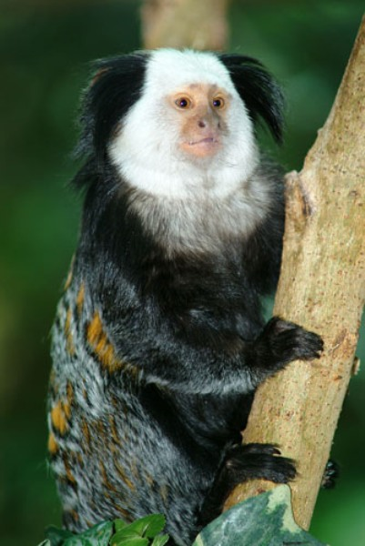 White-headed marmoset in Szeged zoo